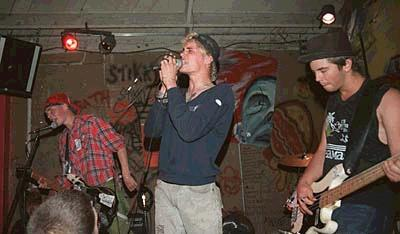 Operation Ivy photographed at the Gilman club